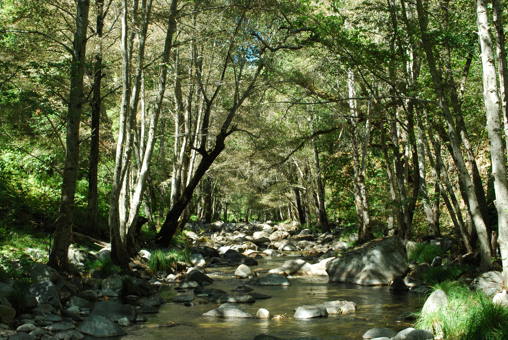 The Carmel River along the Carmel River Trail in the Ventana Wilderness, Big Sur, near the Sulphur Springs campground.